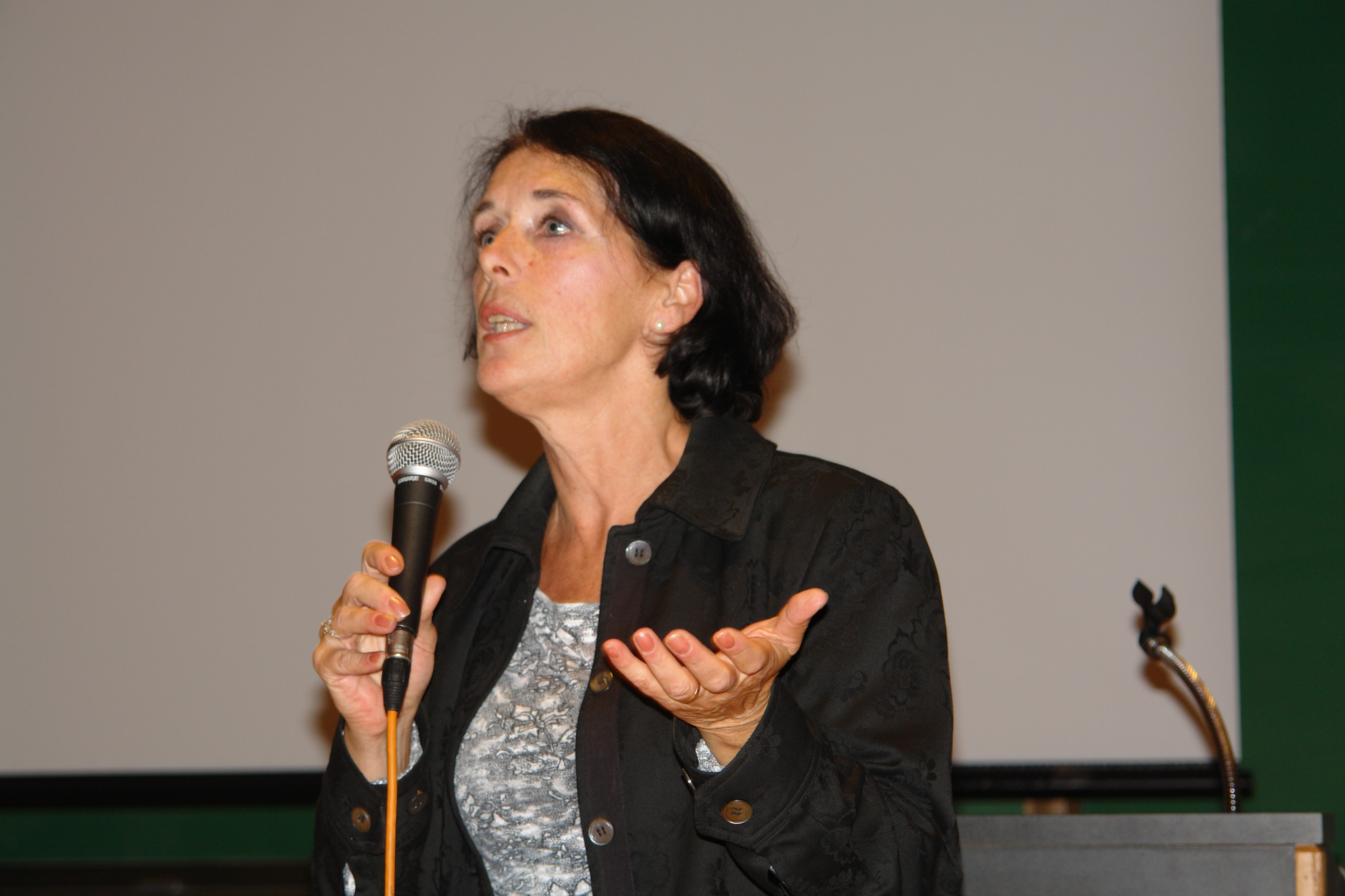 At Northern Michigan University in Marquette, Michigan, Love Canal activist Lois Gibbs talks to environmental groups who are battling the construction of sulfide mines near Lake Superior